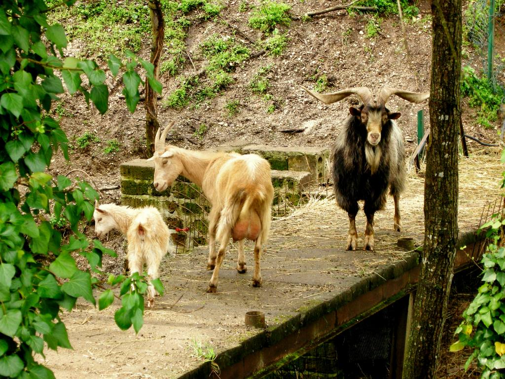 Goat family